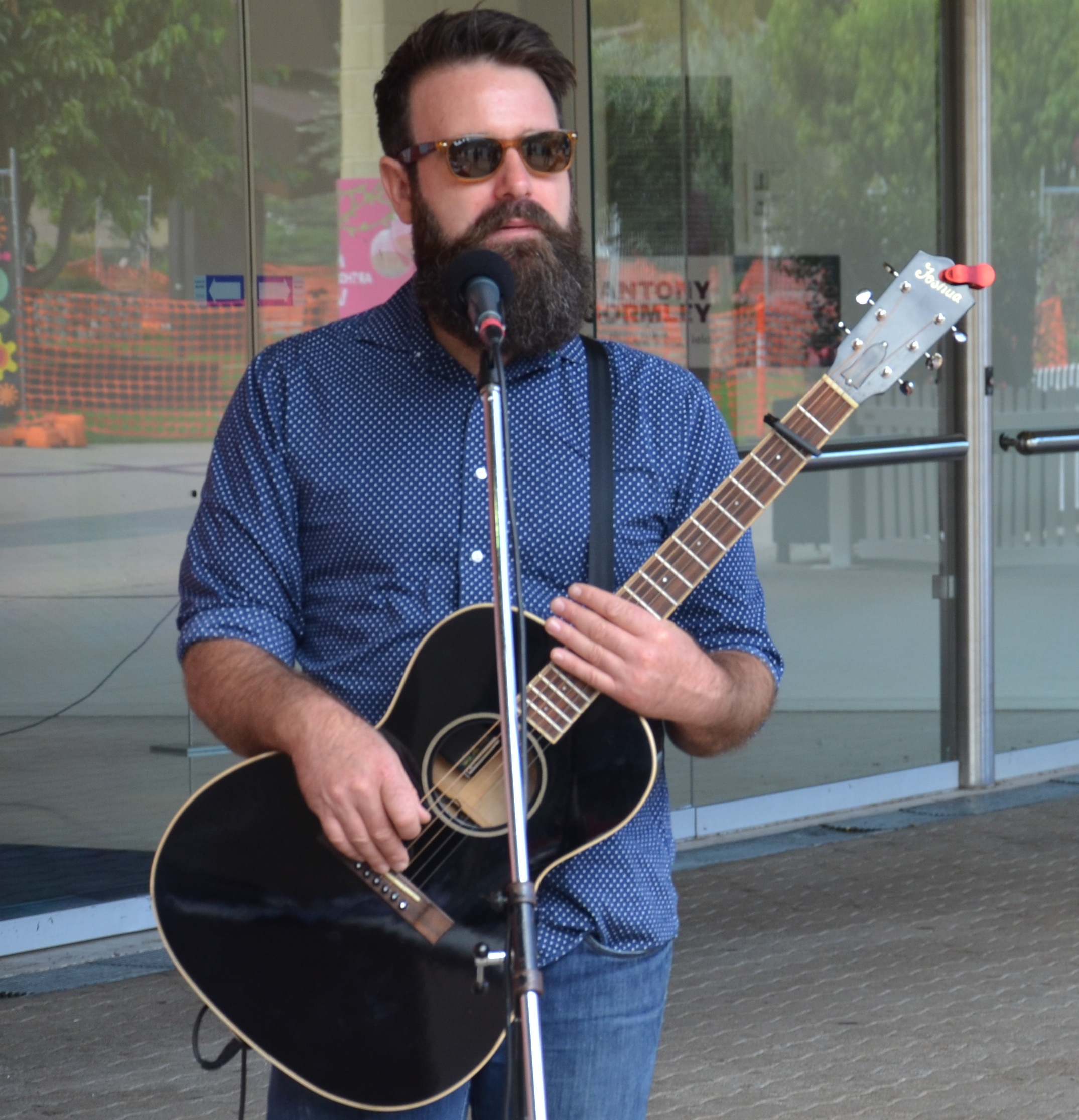 Josh Cunningham at WA Art Gallery Perth Western Australia as part of ABC Perth Radio popup on 9 03 2017